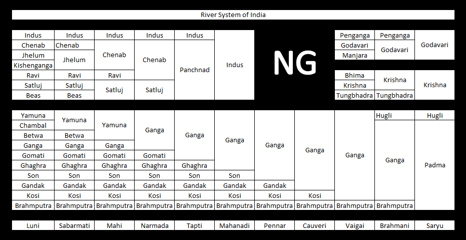 This image shows the tributaries and distributaries of major rivers of India on paper plan in tabular format. The Merging of cells to the right side each time indicates getting supply from a tributary and vice-versa. The bottom-most row shows other rivers with no major helping rivers (Saryu is an exception). Flow of the rivers is assumed to be from left to right.